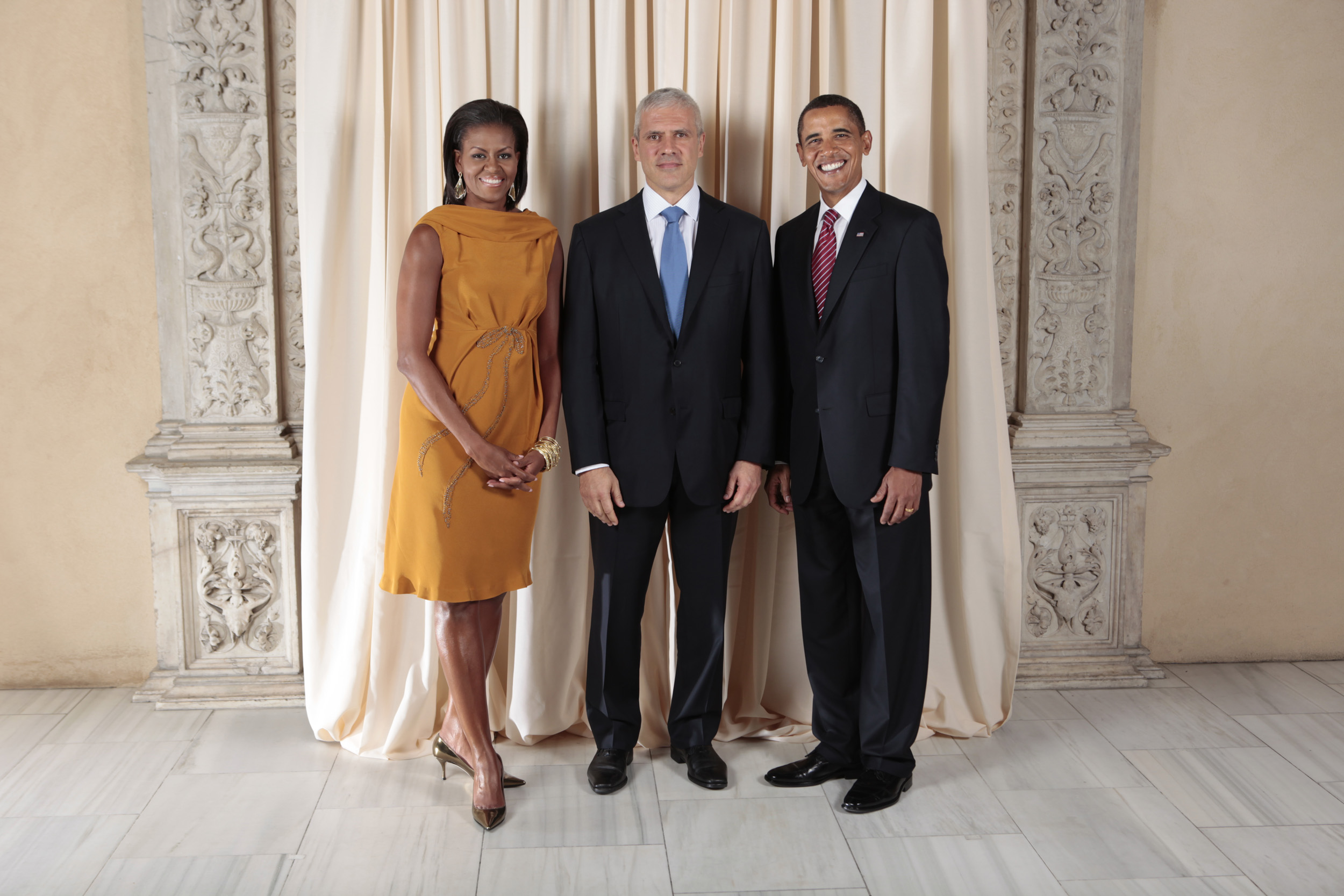 President Barack Obama and First Lady Michelle Obama pose for a photo during a reception at the Metropolitan Museum in New York with Boris Tadic.